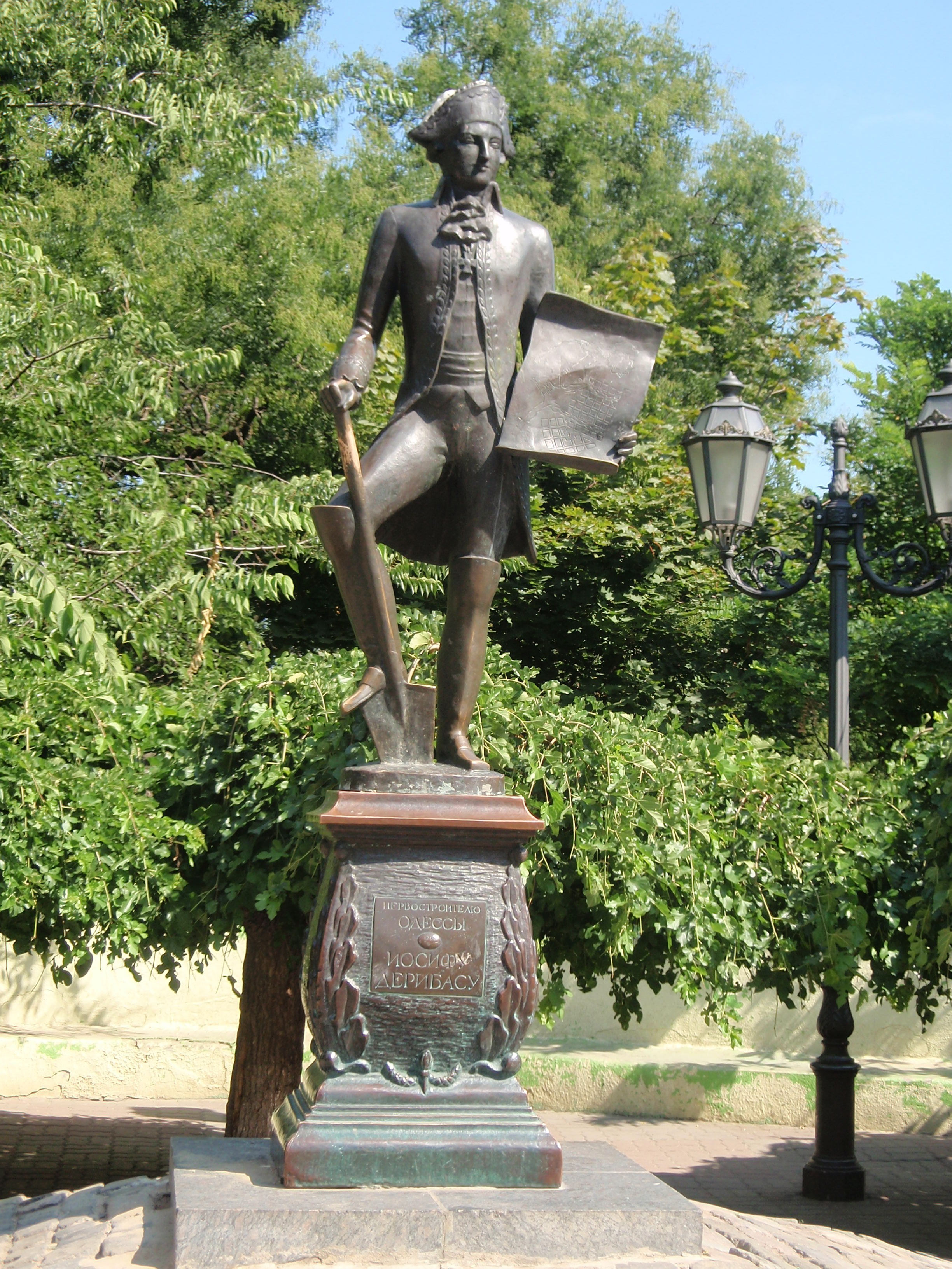 Jose de Ribas monument, Odessa, Ukraine